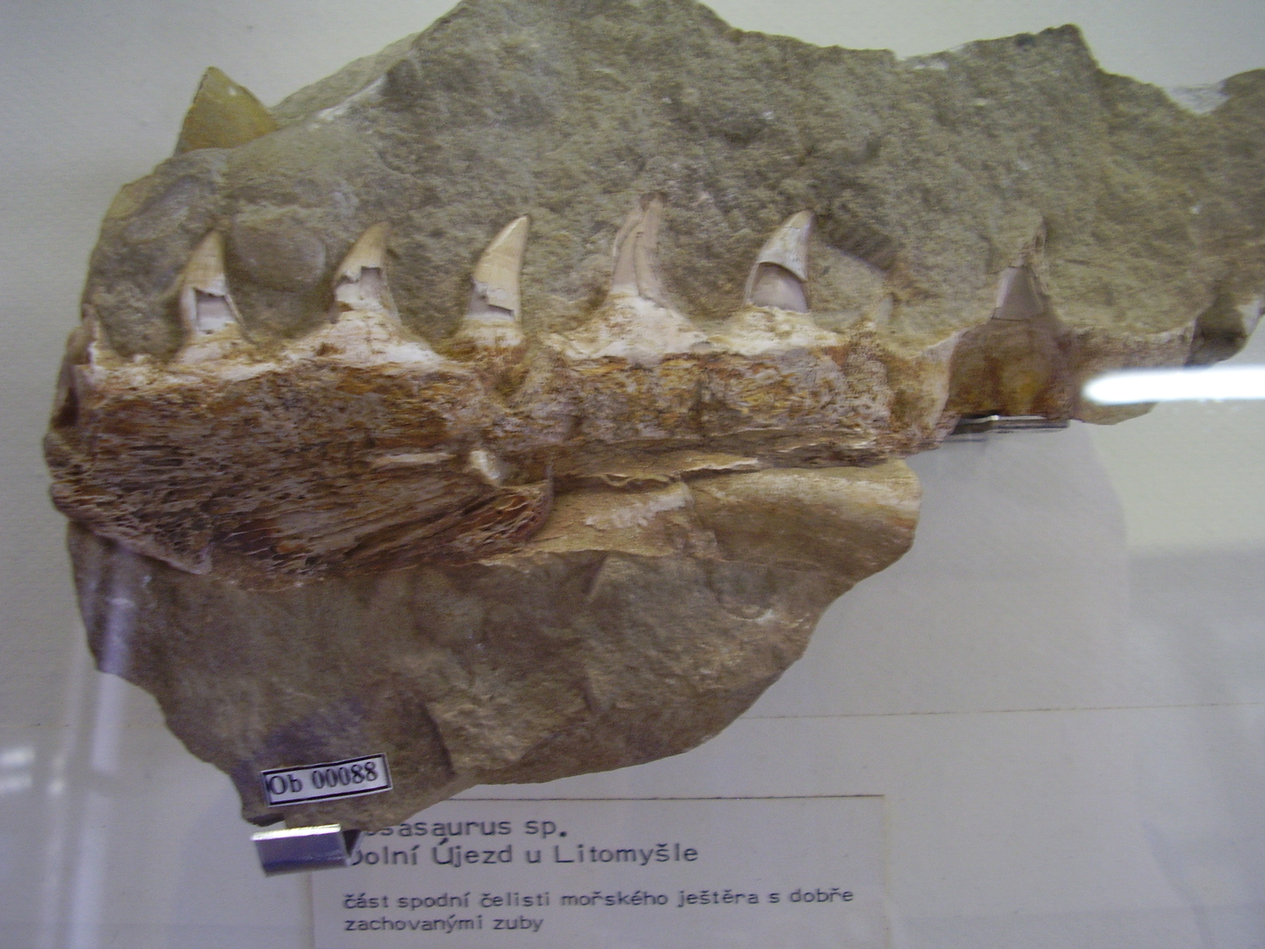 Fossil jaw fragment of a mosasauroid, found in 1960 in Dolní Újezd by Litomyšl (Czech Republic). National Museum, Prague (December 7th, 2007).